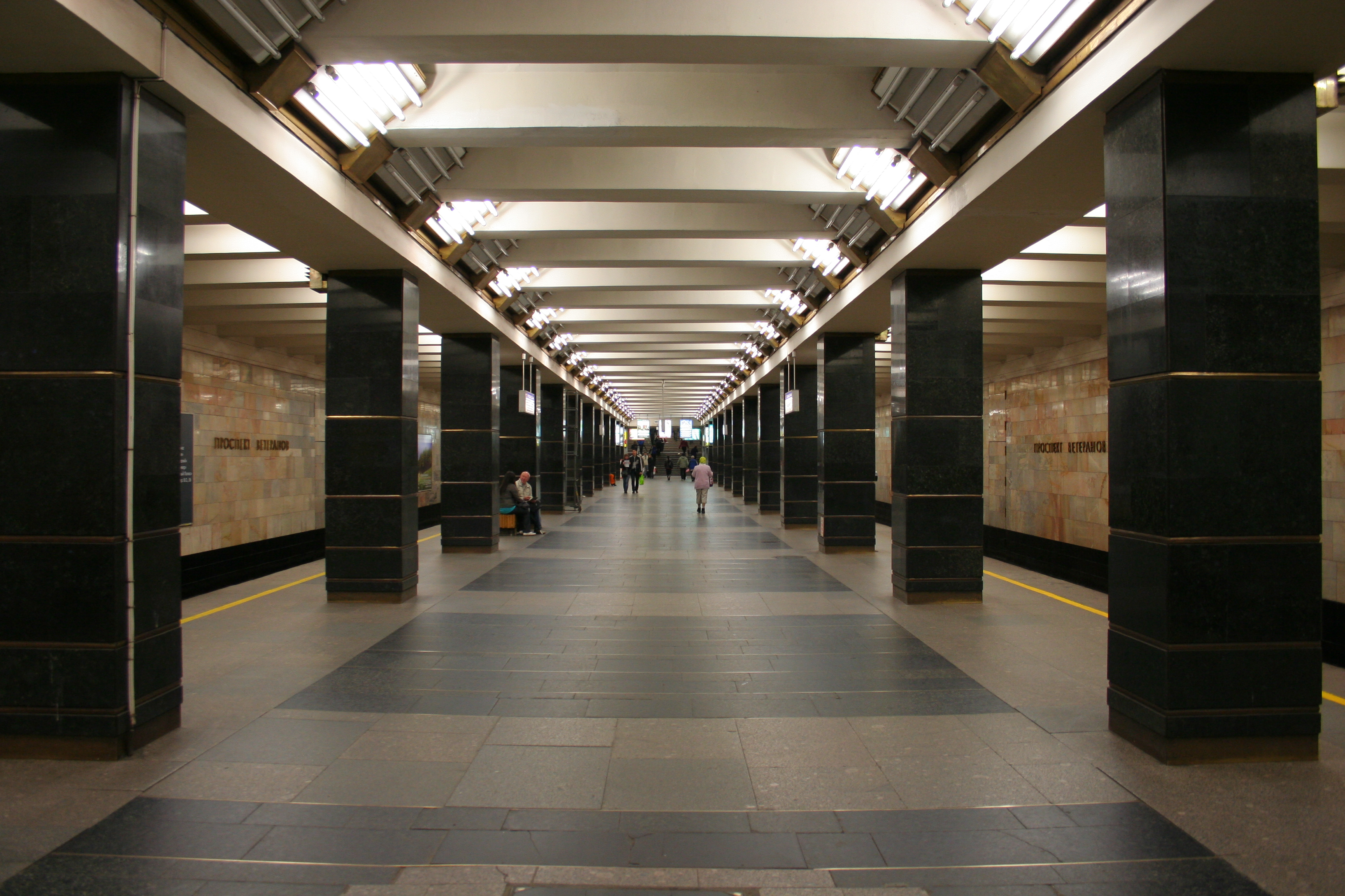 Prospekt Veteranov station of Saint Petersburg Metro